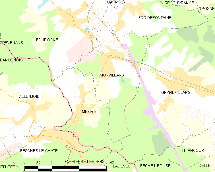 Map of French municipality Morvillars